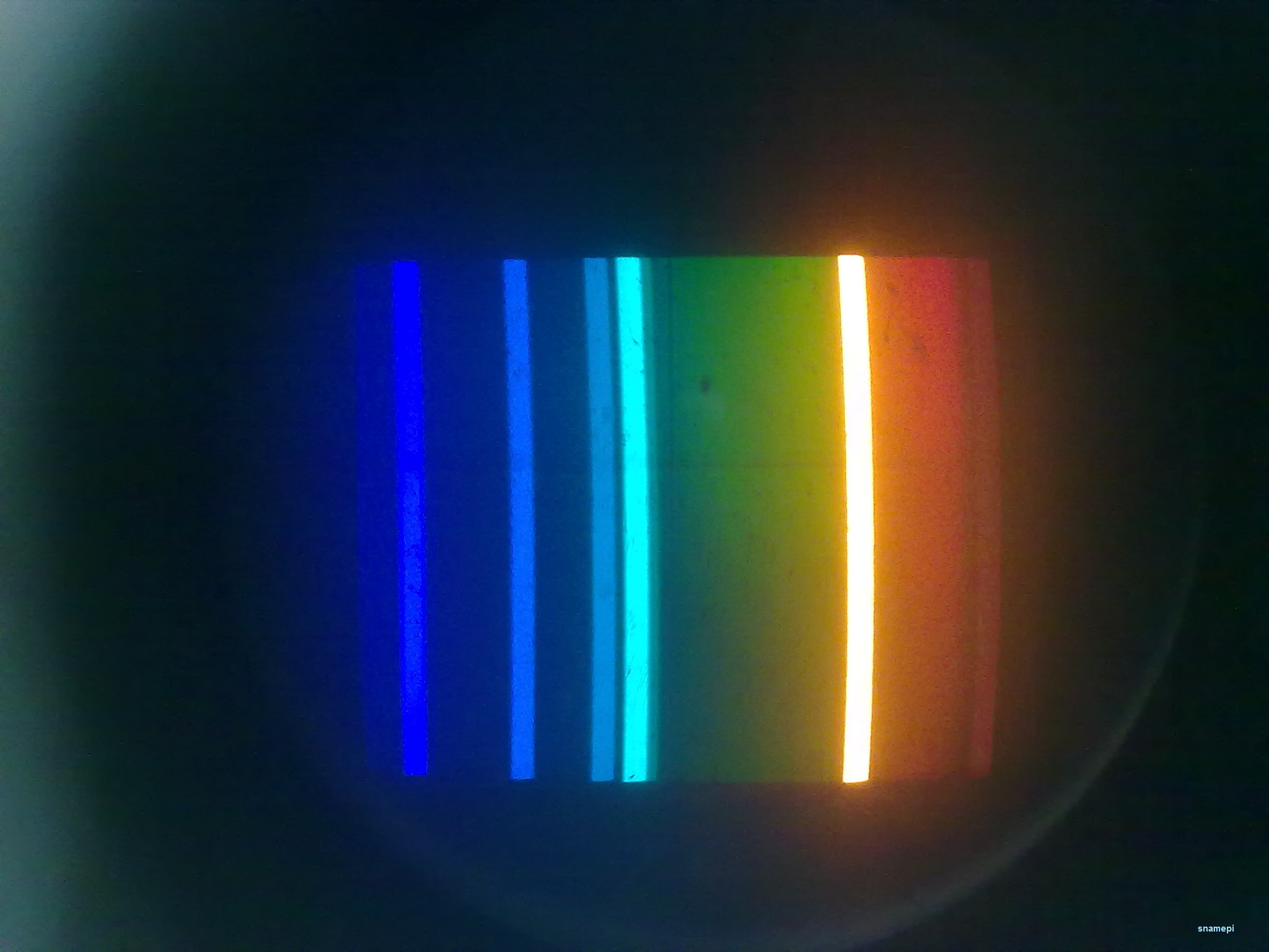 A picture of Heliums spectrum lines